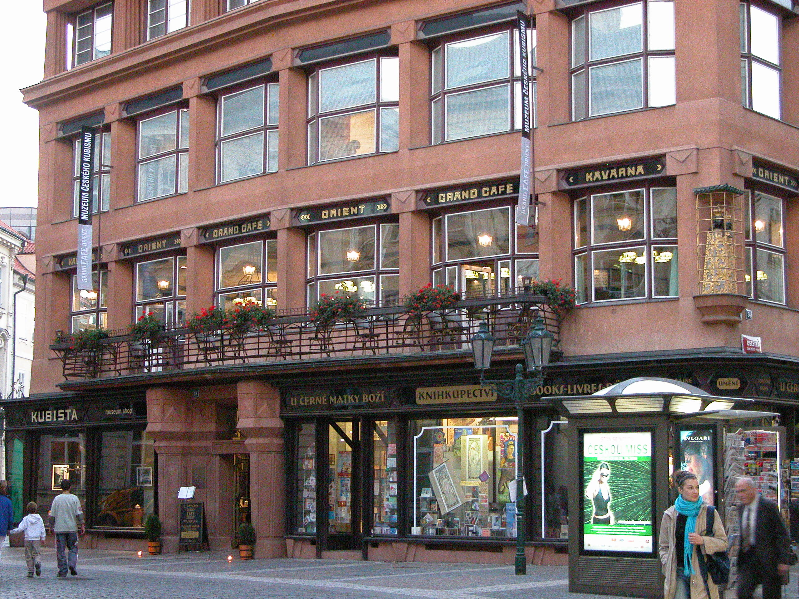 Prague, Czech Republic: Cubism: “Grand Café Orient“ (1st floor) and “Kubista“ museum (ground floor).